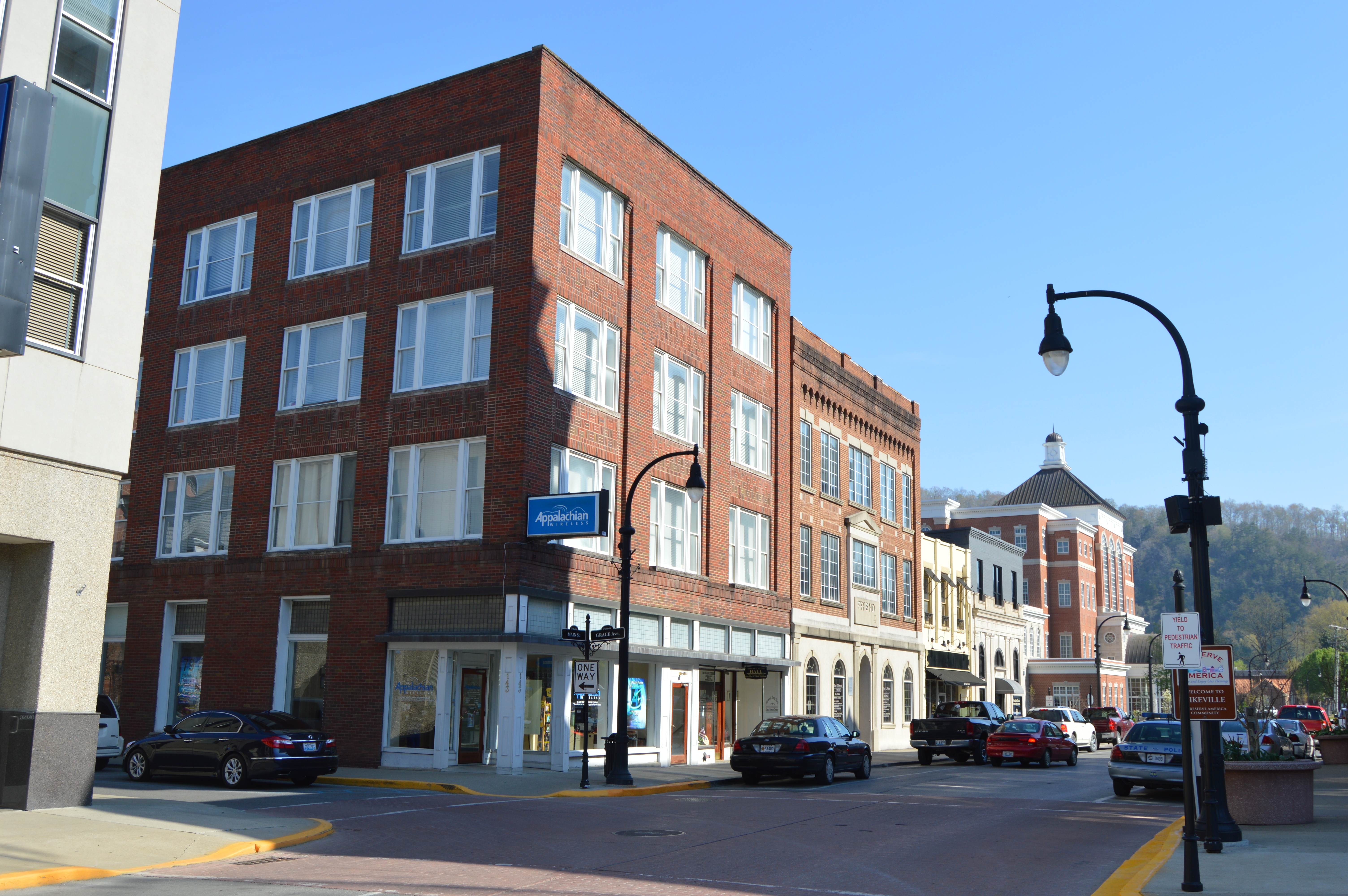 Buildings on the western side of Main Street at the Grace Avenue intersection in downtown Pikeville, Kentucky, United States. This block is part of the Pikeville Commercial Historic District, a historic district that is listed on the National Register of Historic Places.